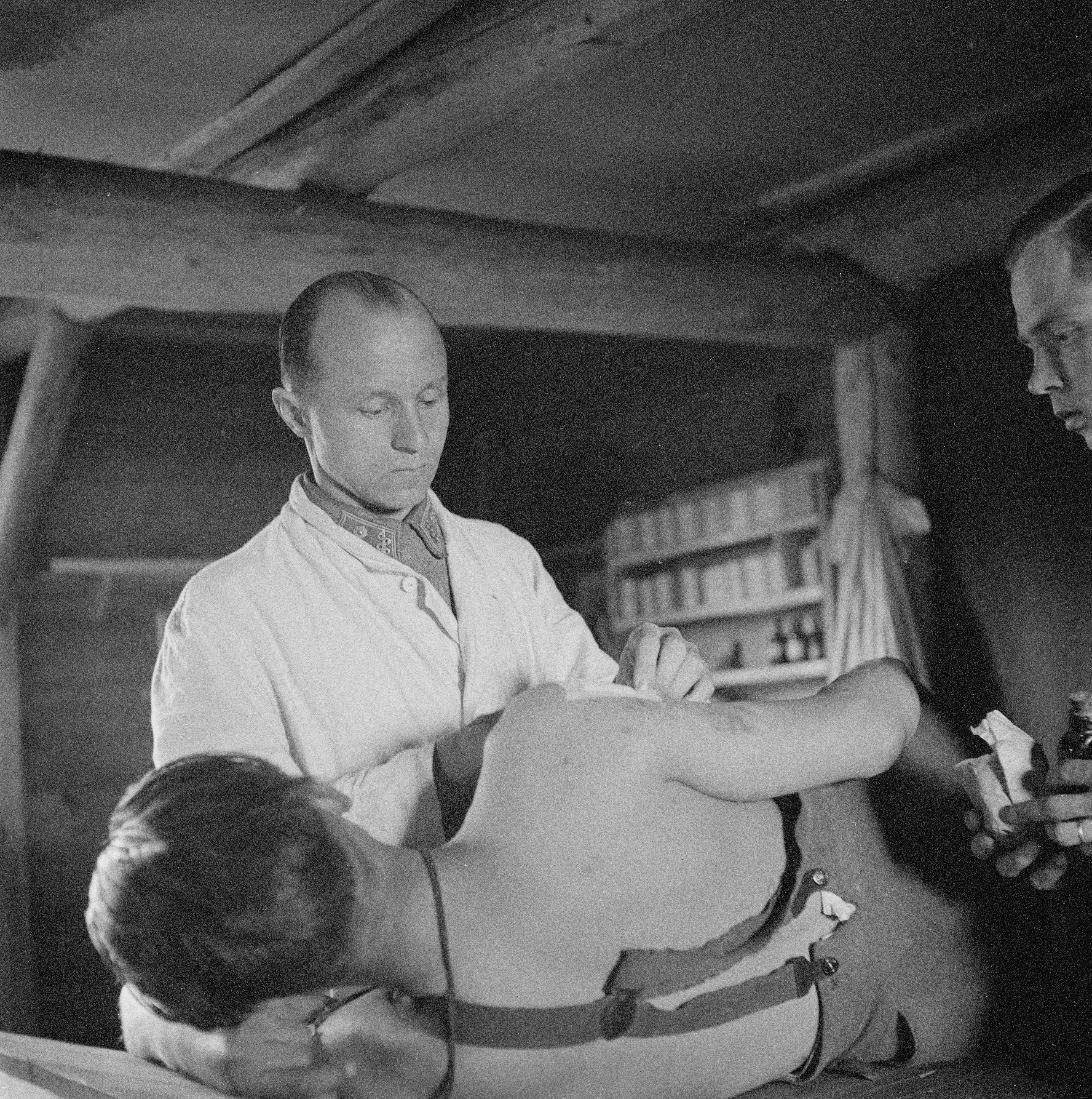 Olympic-winning gymnast Heikki Savolainen at a field hospital in his wartime duties as a physician with the rank of major.